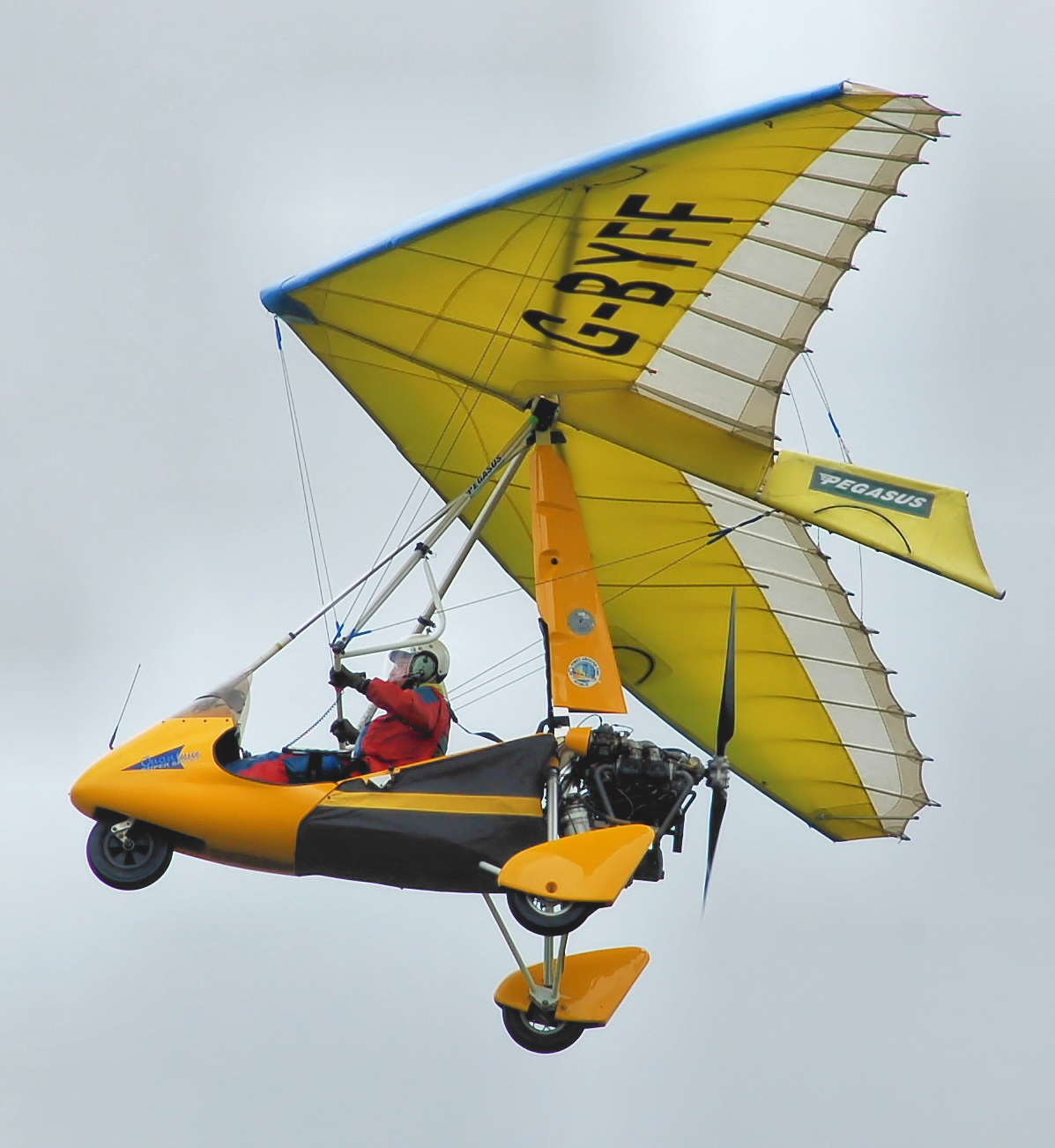 Pegasus Quantum 15-912 ultralight (G-BYFF), built 1999, at Kemble Air Day 2009, Kemble, Gloucestershire, England.